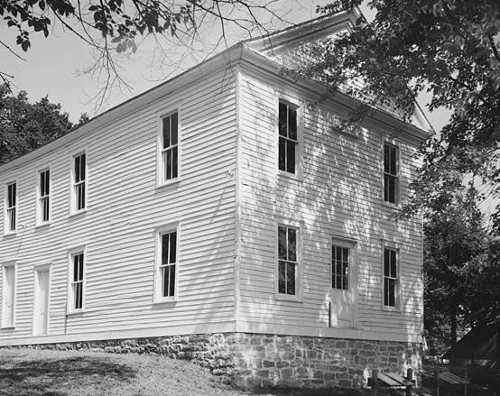 Constitution Hall, 315 Elmore Street, Lecompton (Douglas County, Kansas) (cropped)